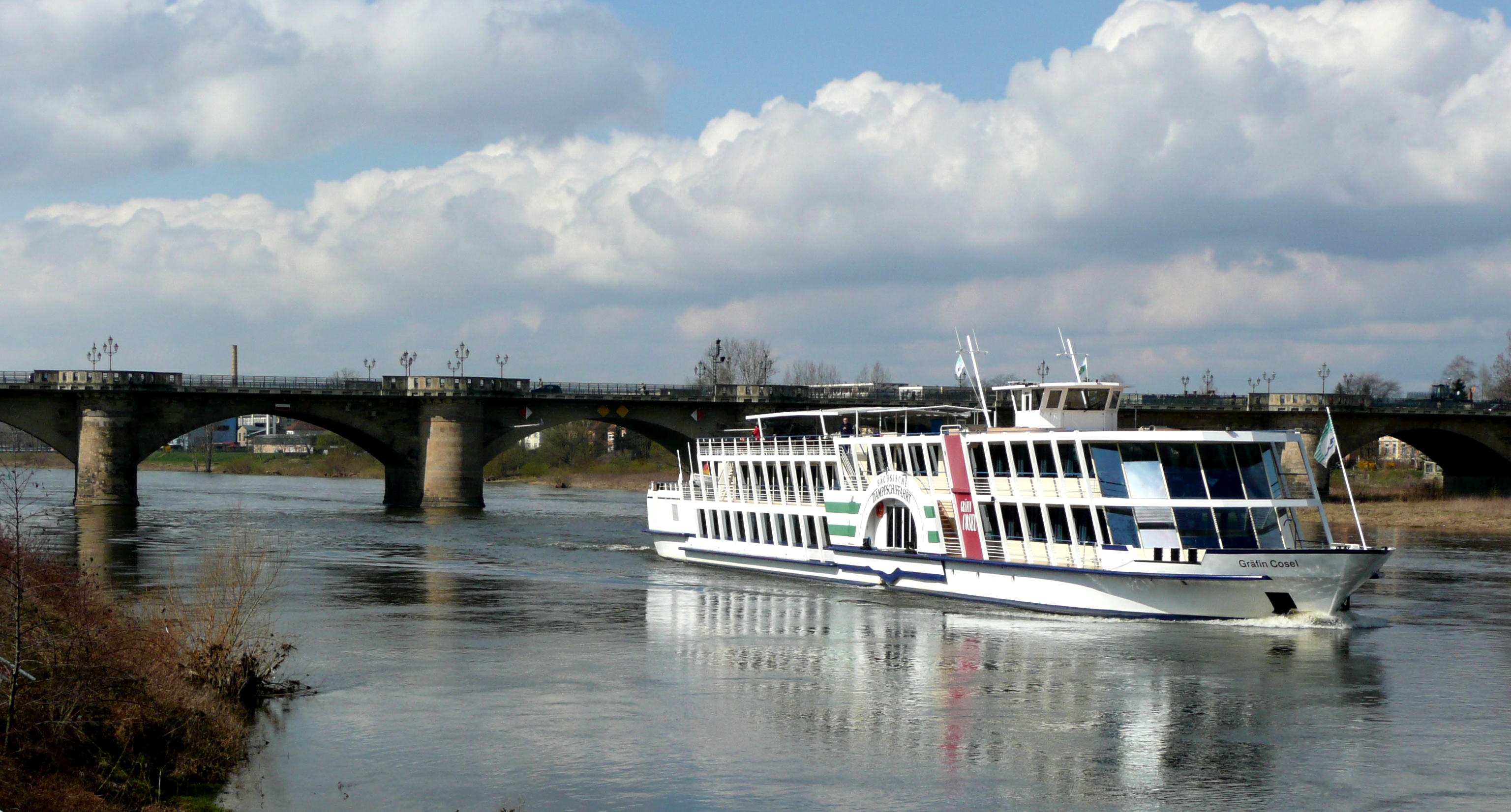 This image shows the motor ship "Gräfin Cosel" on the Elbe in Pirna. The ship was built 1994 and belongs to the White Fleet Dresden.